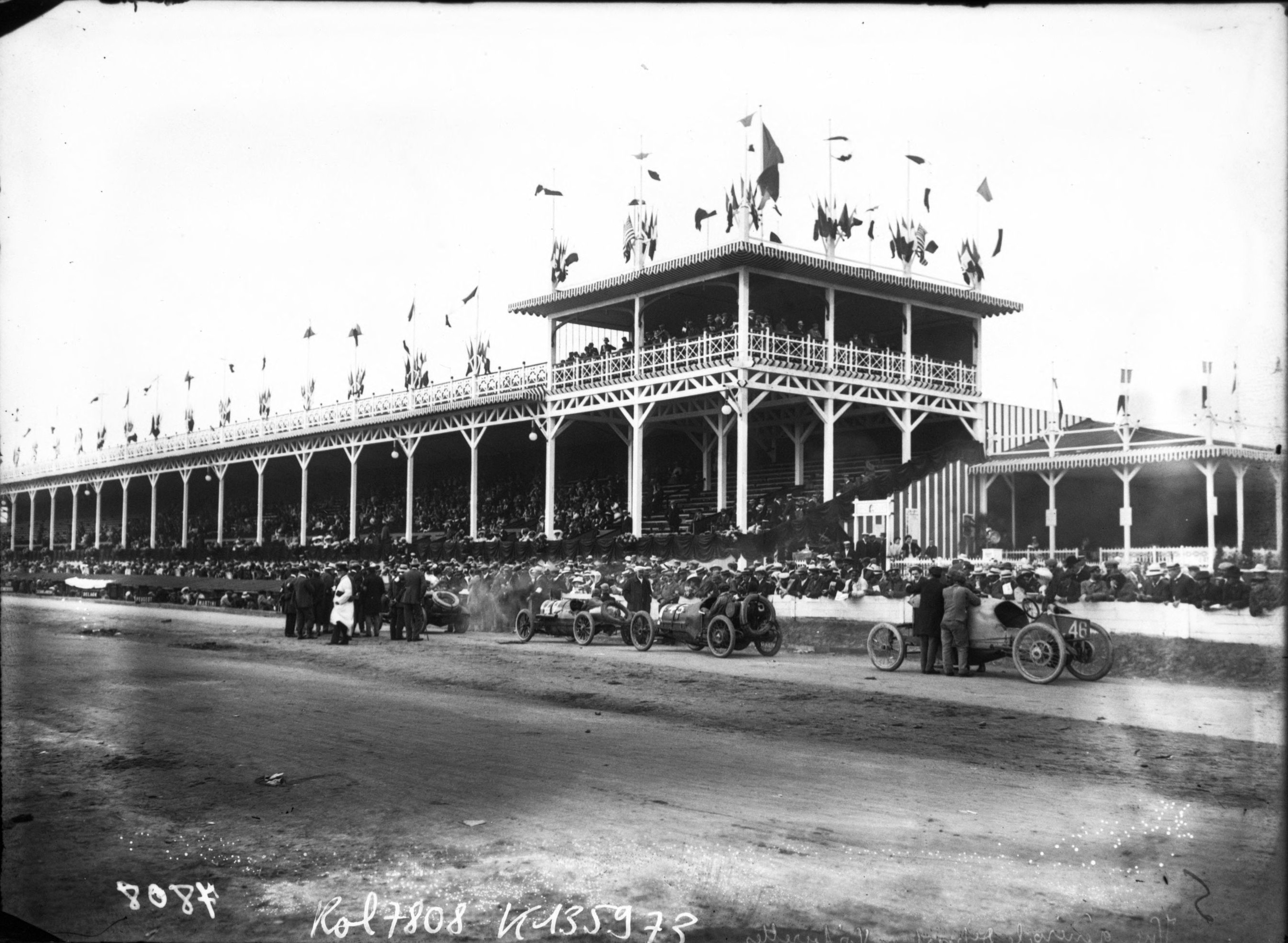 Starts at the 1908 French Grand Prix at Dieppe.